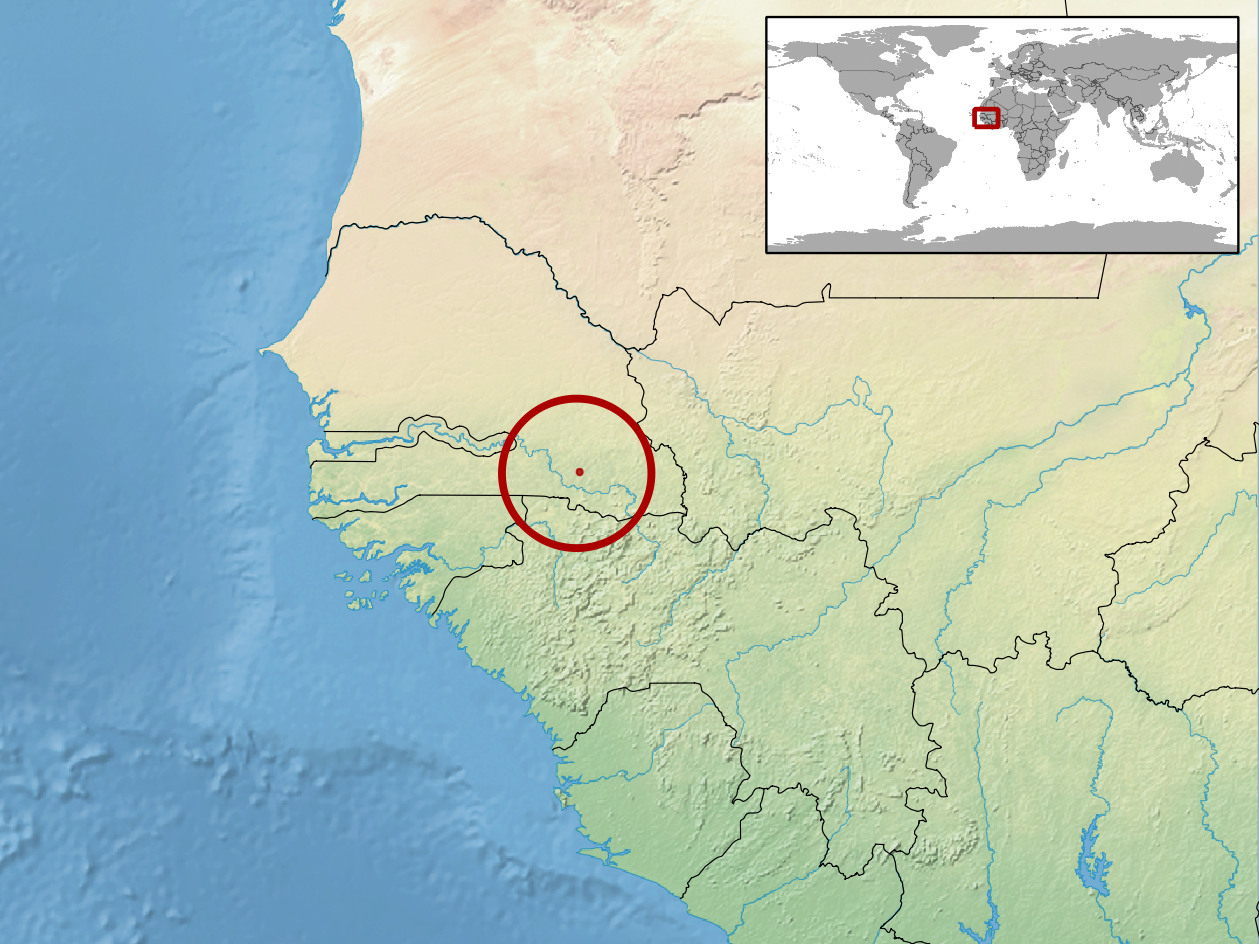 geographic distribution of Cynisca senegalensis (Native: Senegal)